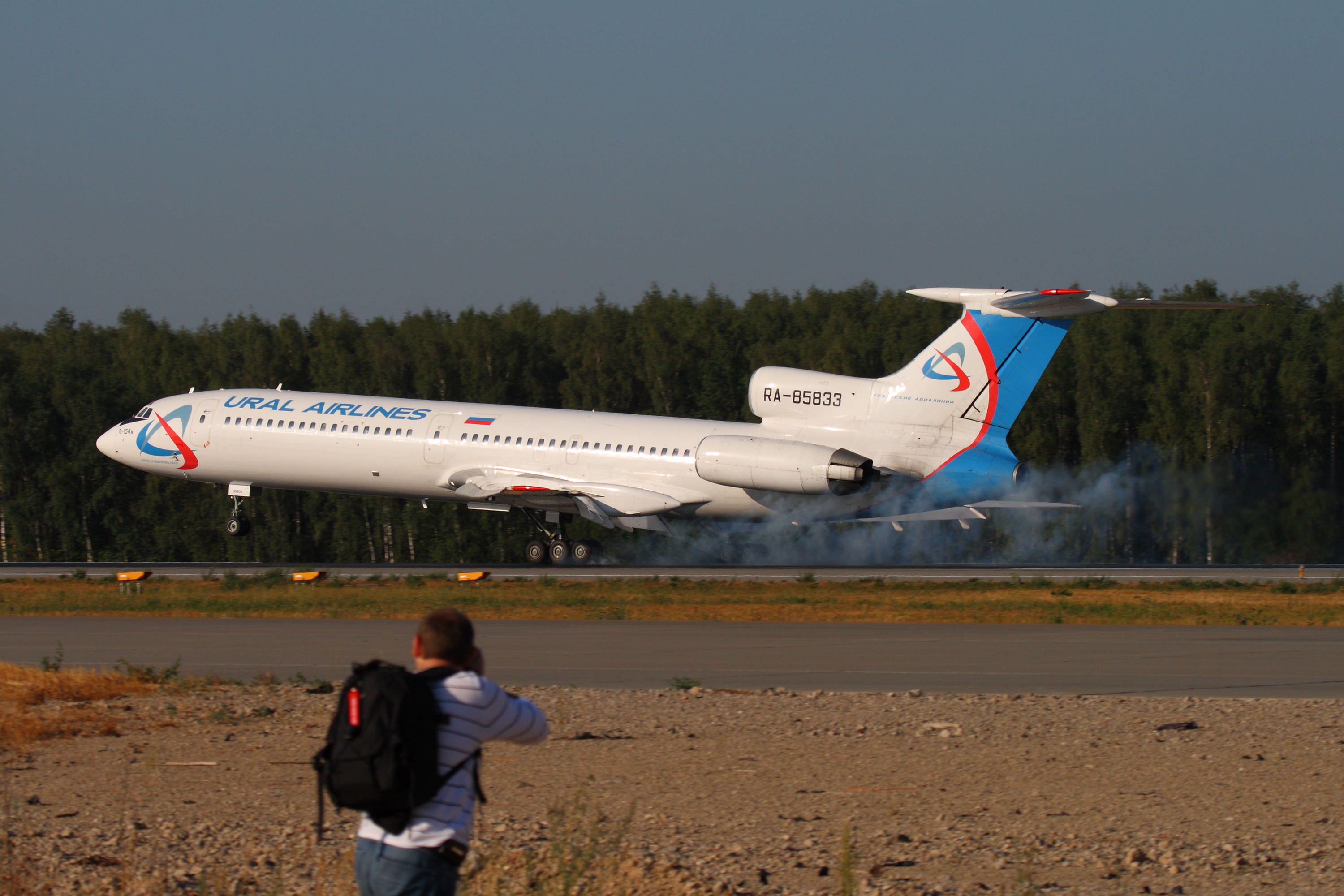 Ural Airlines Tupolev Tu-154M touching down runway 14R and a planespotter capturing the moment of touchdown.